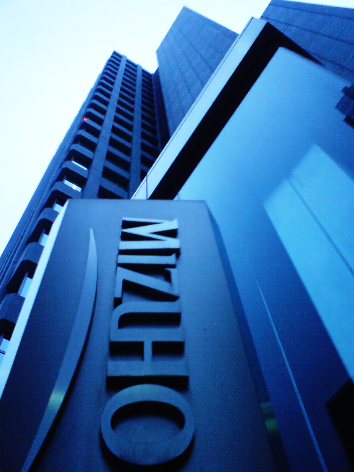 Mizuho Trust & Banking headoffice in Tokyo, Japan